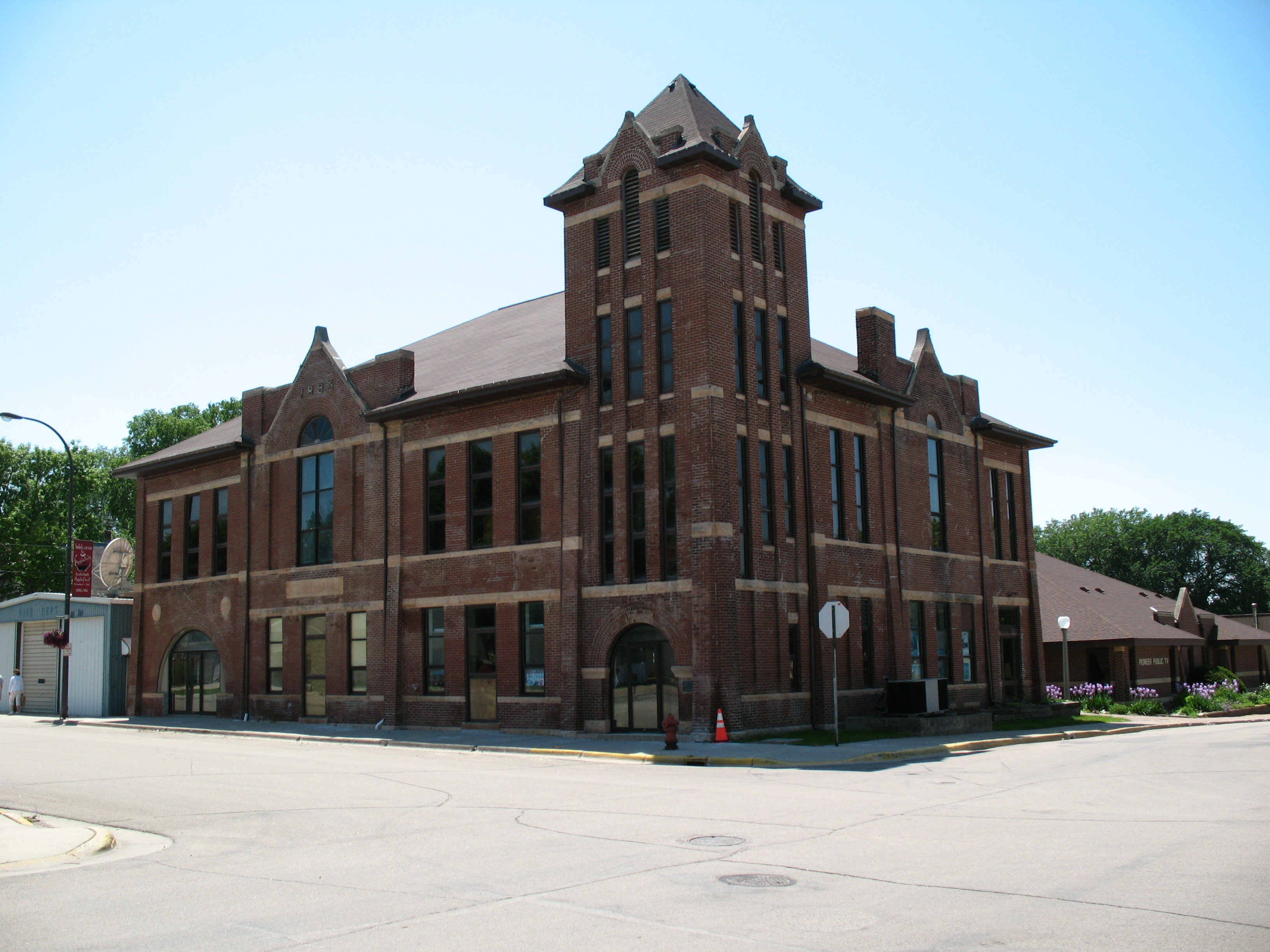 The city hall on Main Street of Appleton, Minnesota.